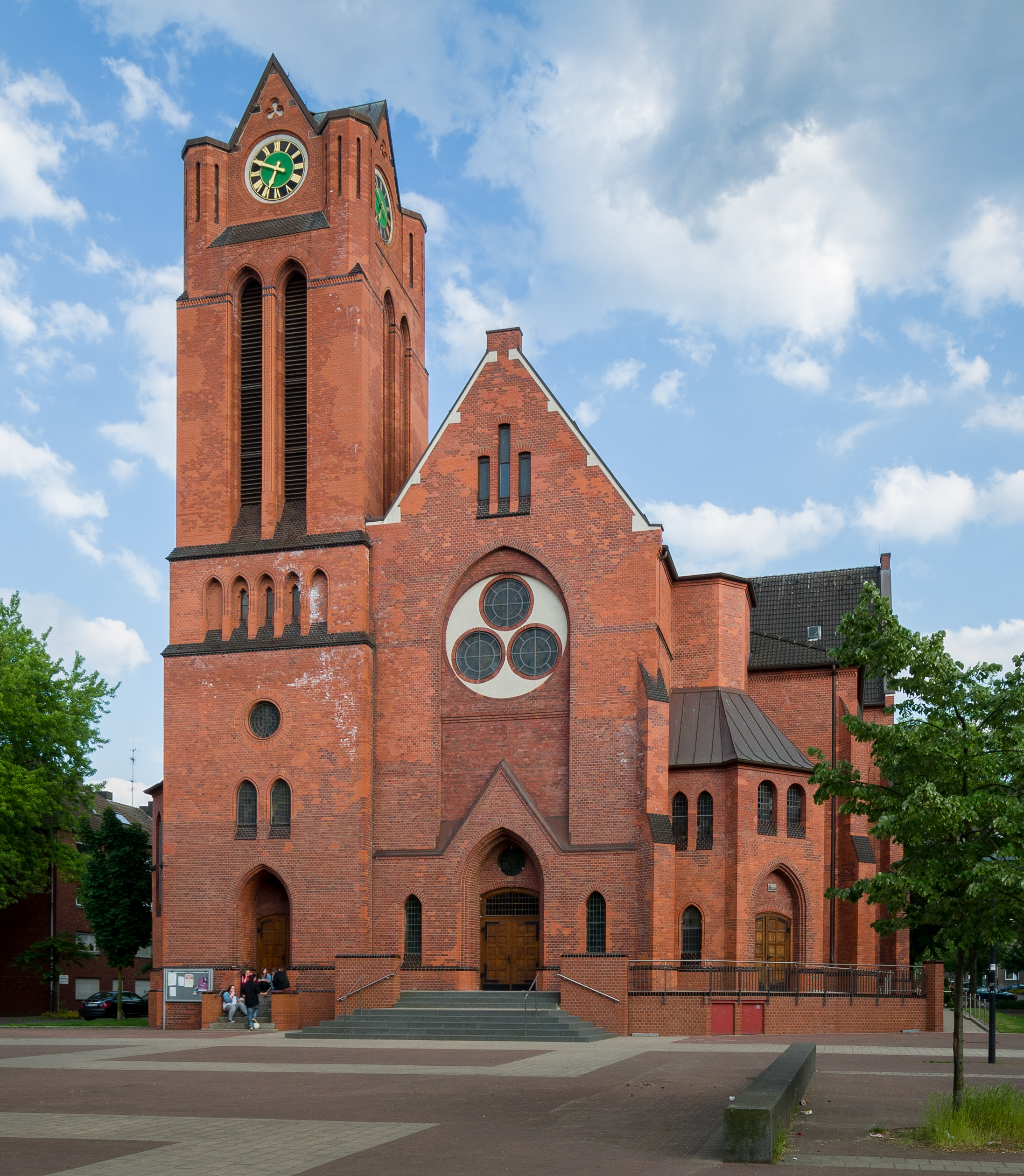 Protestant Christus Church in Essen-Altendorf